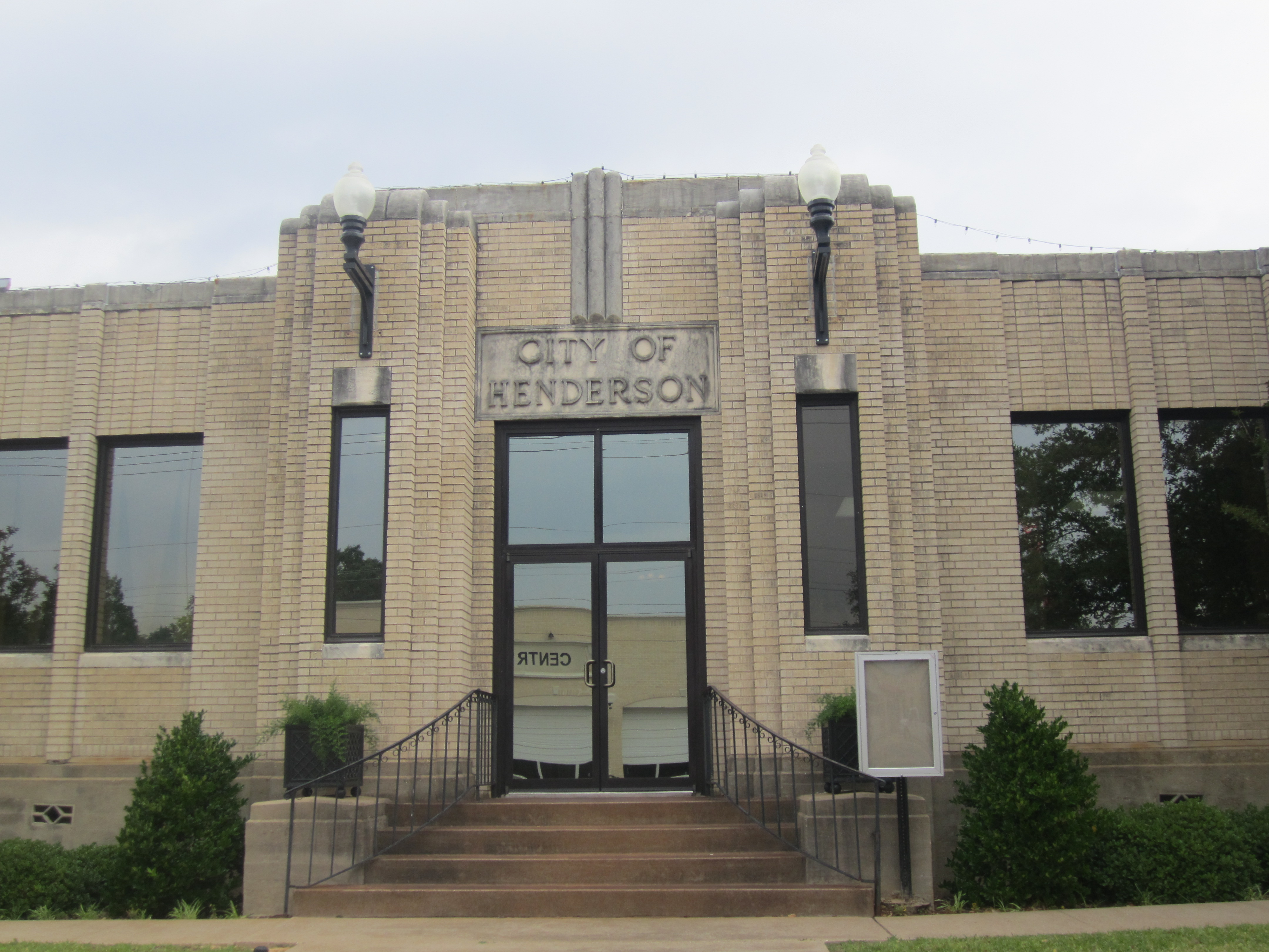 I took photo with Canon camera in Henderson, TX.